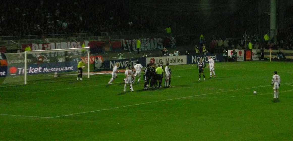 my photo at the stade gerland